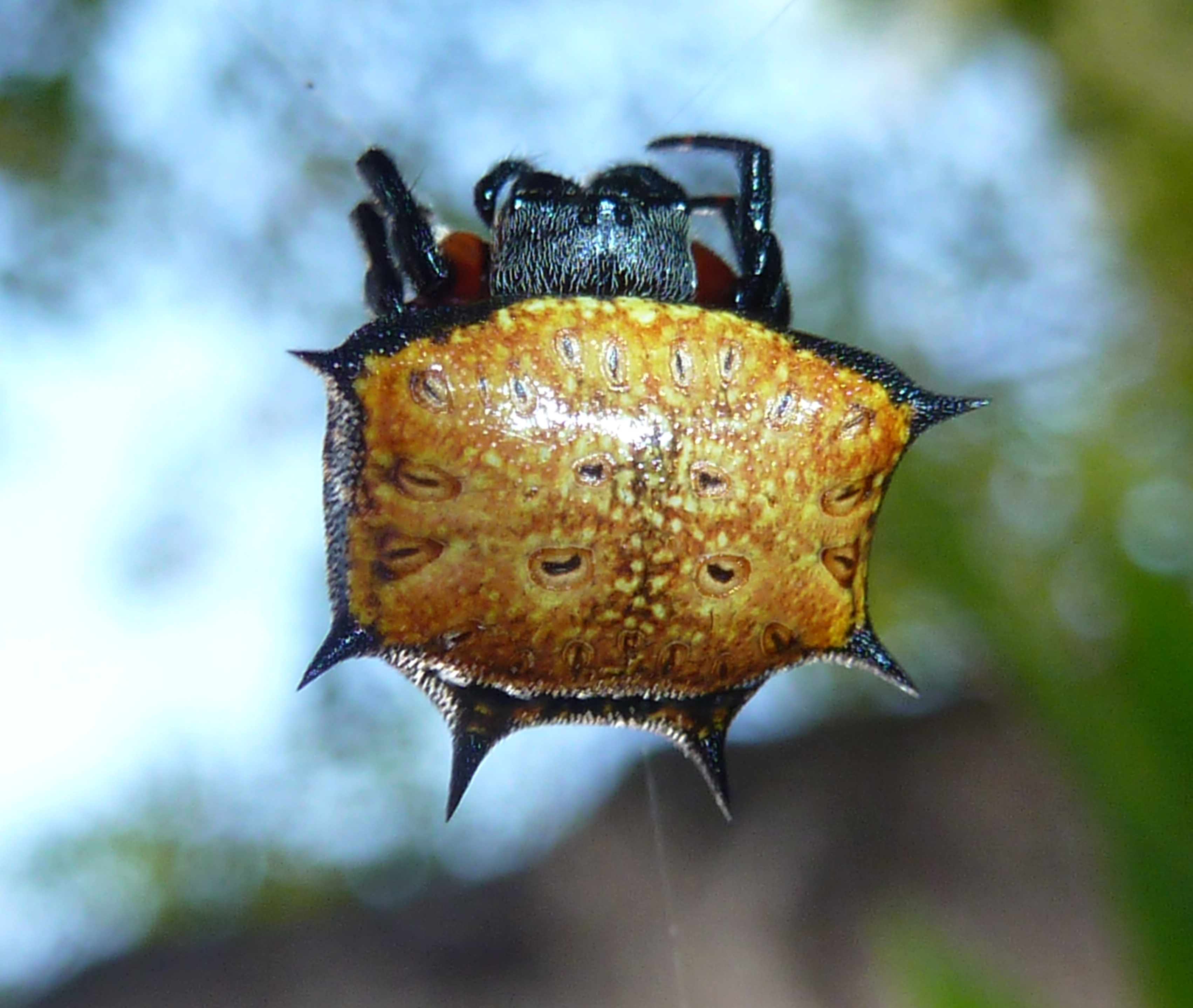 Biscuit kite spider in Krantzkloof Nature Reserve in Kloof, KwaZulu-Natal